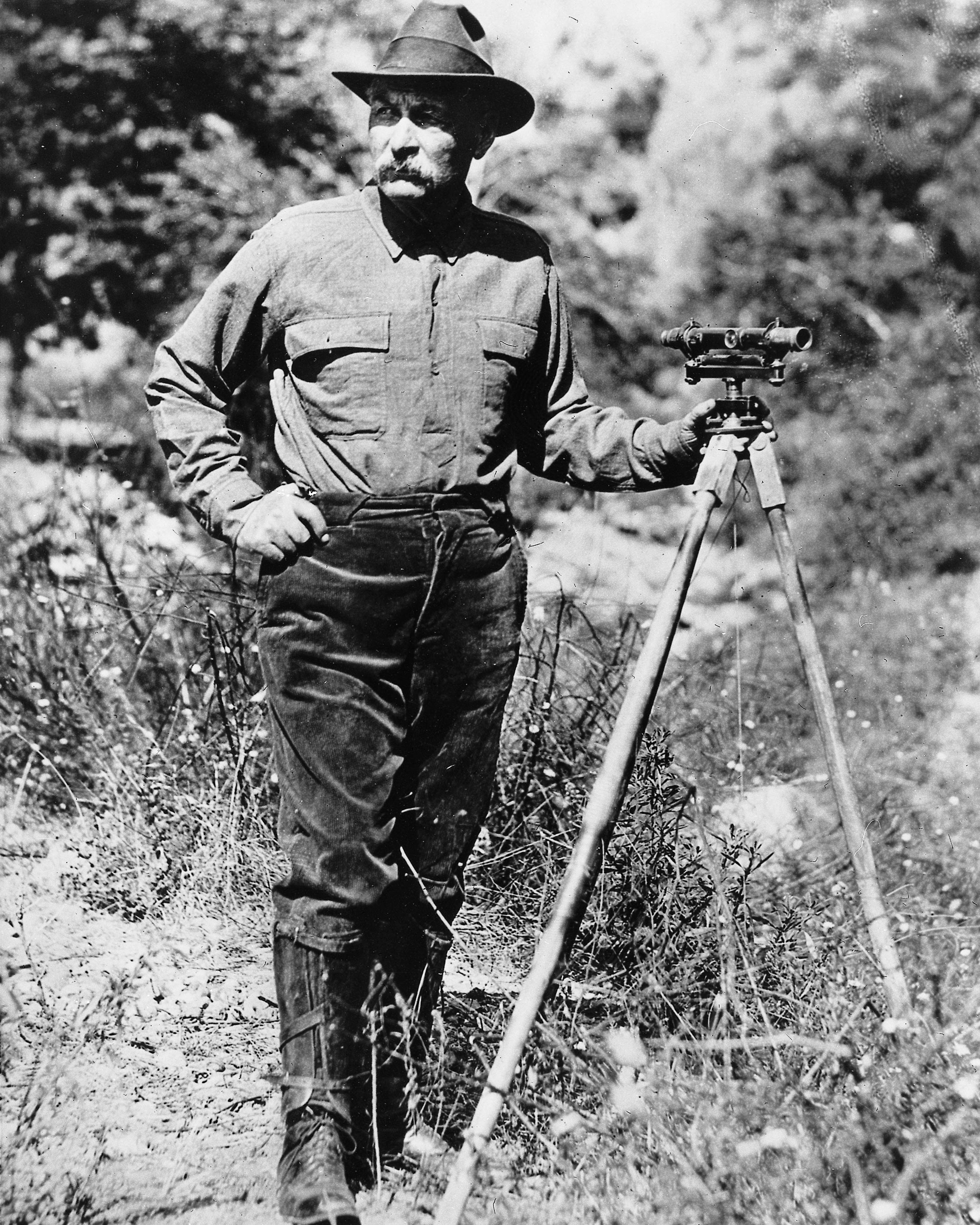 Portrait of William Mulholland with a surveyor's scope on a tripod, ca.1908-1913 Photographic portrait of William Mulholland with a surveyor's scope on a tripod, ca.1908-1913. Mulholland is standing at center and looking to the left with his body facing the viewer. He has one had on his hip and the other on his tripod at right. He is wearing a light-colored, long-sleeved shirt and dark pants with leather boots. A wide-brimmed hat casts a shadow on his face. He has a light-colored mustache. Behind him, several bushes and trees are visible. As the designer and builder of the Los Angeles Aqueduct to Owens Valley, William Mulholland ranks among the individuals most responsible for the development of modern Los Angeles.